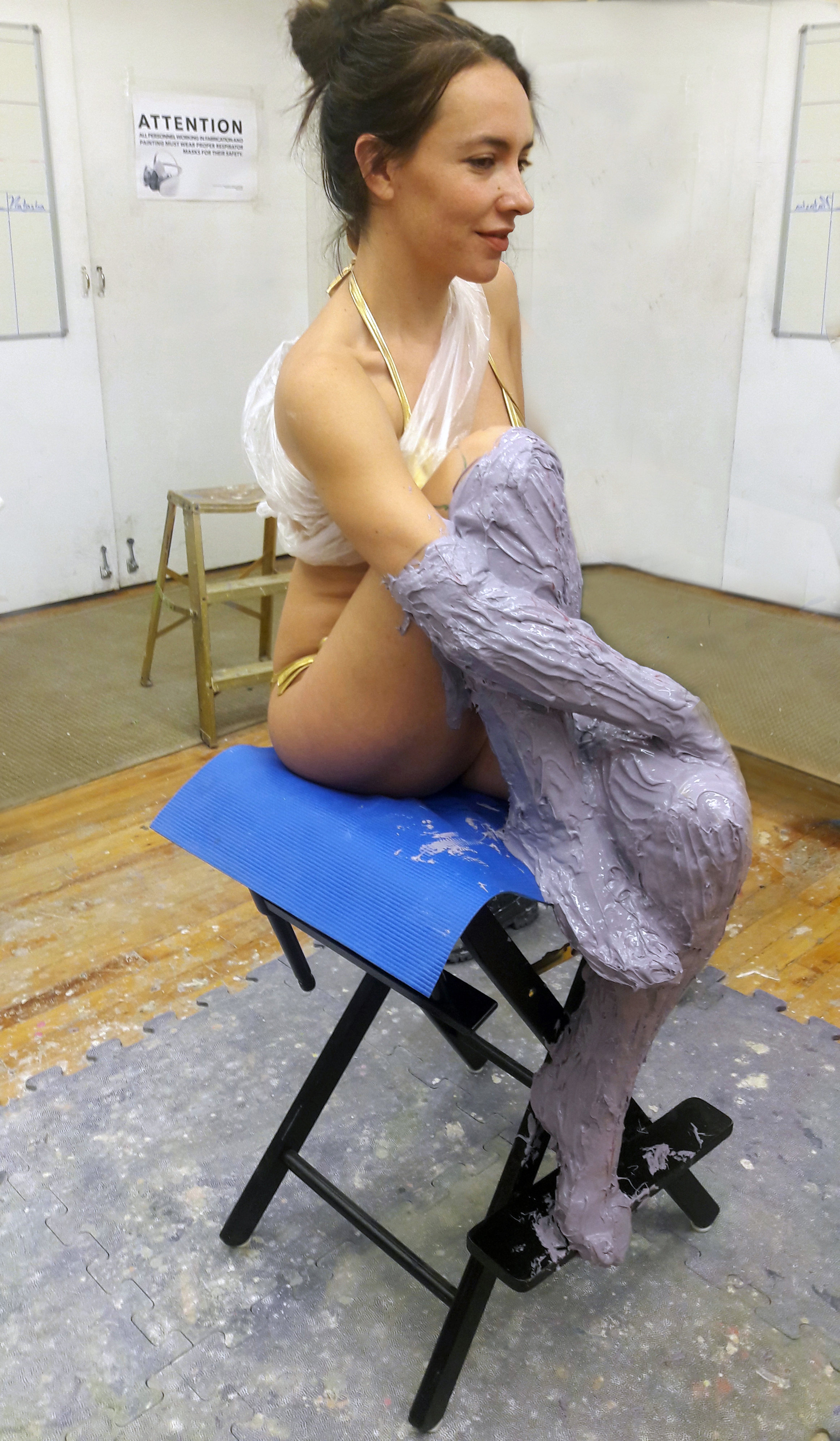 The making of The Midpoint. French-Mexican actress Yadira Pascault Orozco during the casting process to create "The Midpoint" a hand-patinated hyperrealist sculpture by Carole Feuerman. Feuerman and Pascault Orozco met at the opening of Feuerman's Los Angeles exhibit, Perceptions, in July of 2016. Feuerman invited Yadira Pascault Orozco out to New York the following week to begin a week-long casting process that would create elements of the sculpture entitled The Midpoint created in created in Yadira Pascault Orozco's likeness. The sculpture was finished in 2017 and debuted at the 57th International Art Exhibition, la Biennale di Venezia, also in 2017. In late 2019, the mayor of Tübingen (Germany), Boris Palmer, chose The Midpoint to appear the “Musée Imaginaire” by SWR2 Hölderlinturm on shore of The Neckar river. Causing a heated dispute over the work between the arts commission and members of the community.